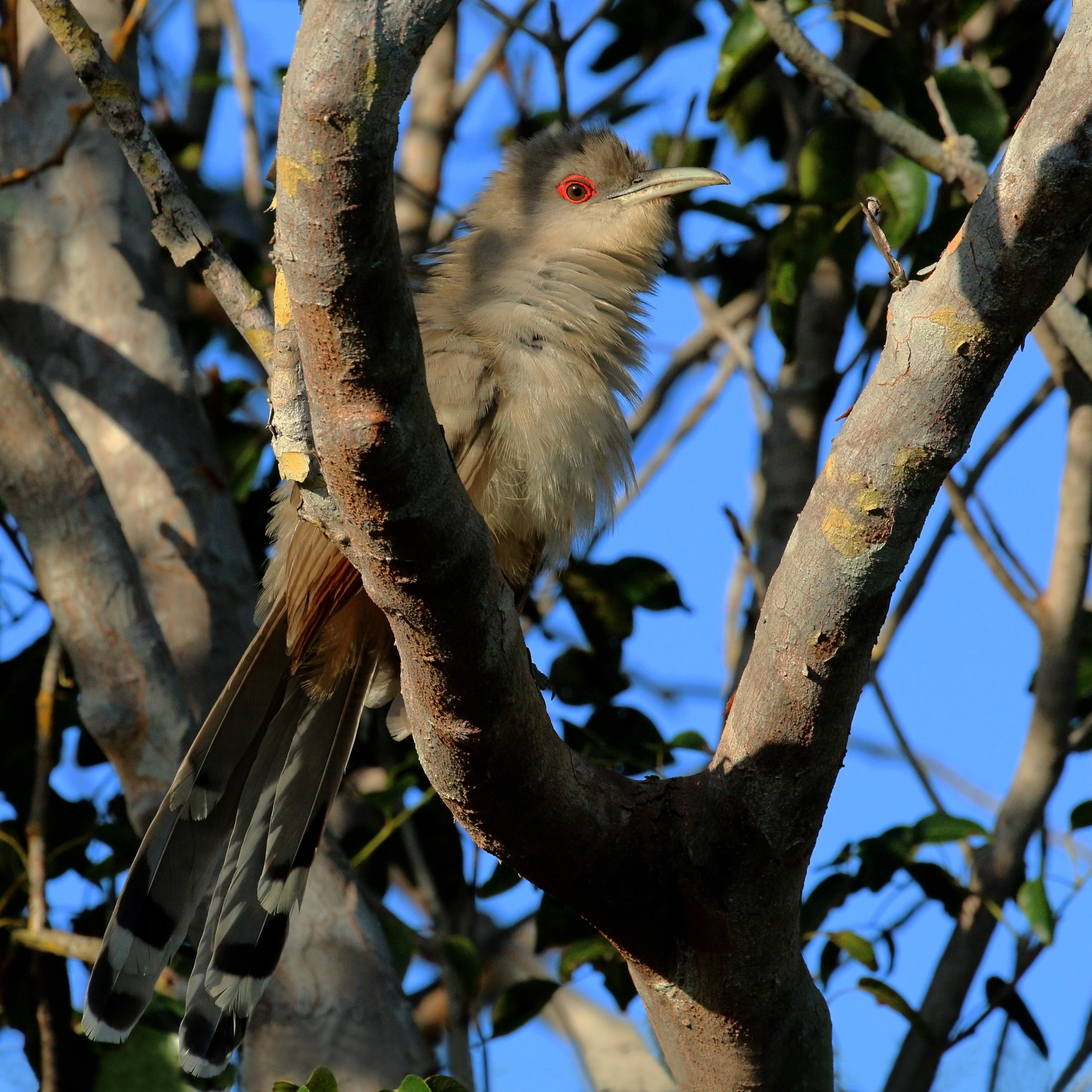 Great lizard-cuckoo (Coccyzus merlini santamariae), Cayo Guilermo, Cuba